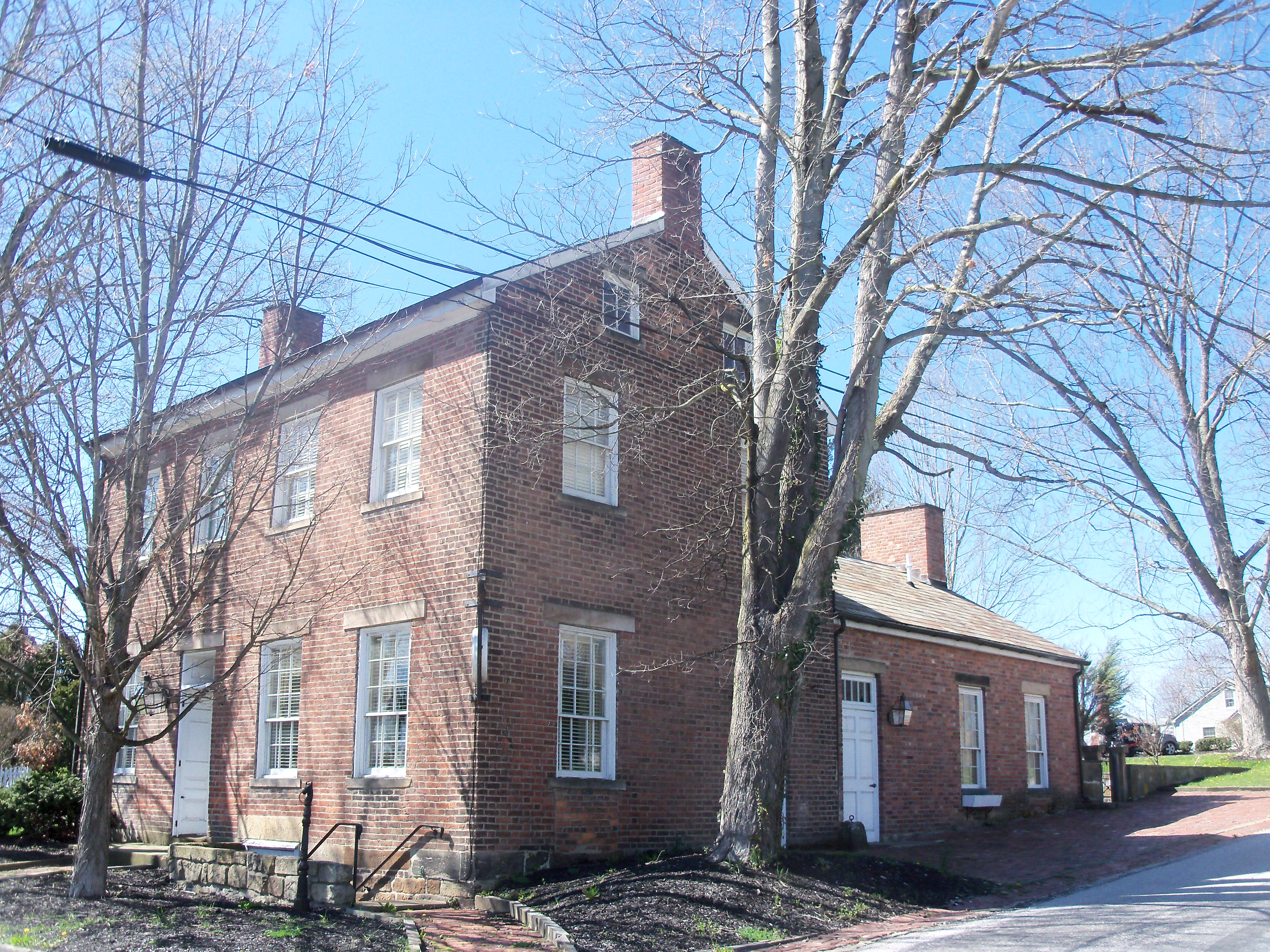 Hanover House, on corner of Main and Howard, Hanoverton, Ohio